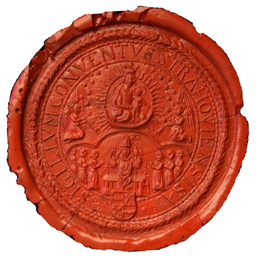 Seal of the Strahov Convention, 1475